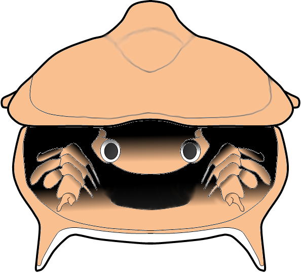 A drawing of Agnostus pisiformis, enroled, frontal view, showing the cephalon (top), pygidium (bottom) with posterior spines hypostome with first segment of the antennae (cut off) and the frontal thoracal limb endopod, podomeres 7, 6, 5, and 4. Based on a SEM photo.[1]